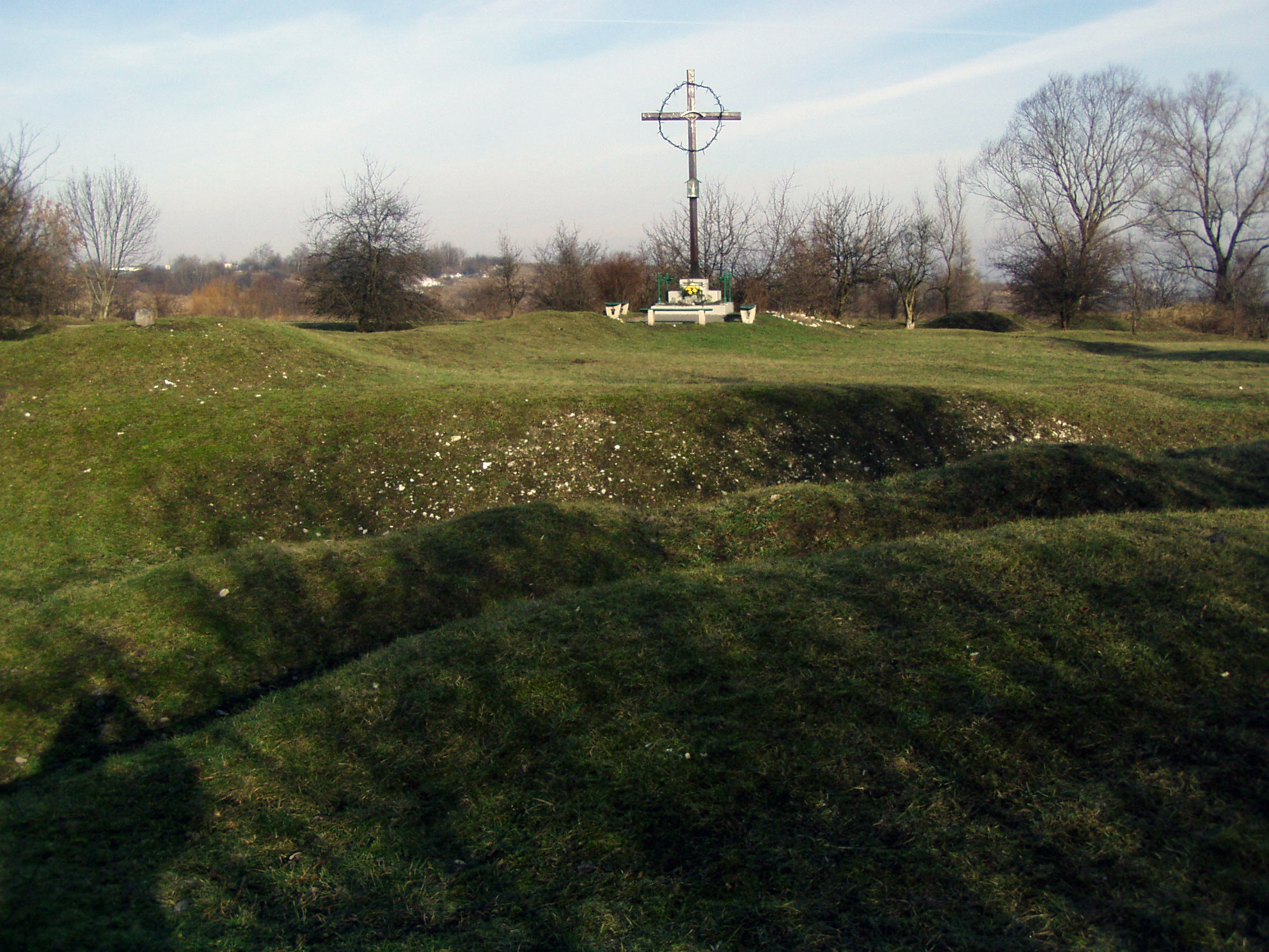 Chujowa Górka ("Prick Hill"), the execution place in Płaszów concentration camp.